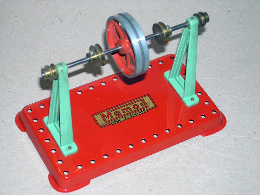 A studio shot of a near mint Mamod lines haft from c1958-65.